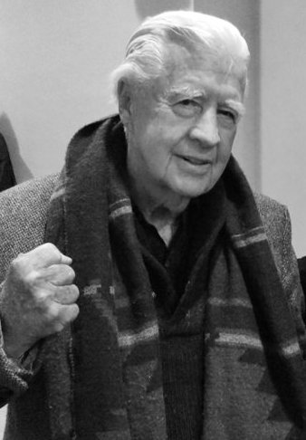 Clu Gulager of "Return of the Living Dead" with John Russo of "Night of the Living Dead" in the background.